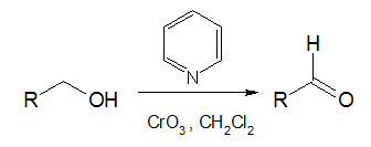 Collins reagent scheme